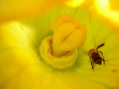 Cucurbita pepo—Zucchini flower, being pollinated by a honey bee